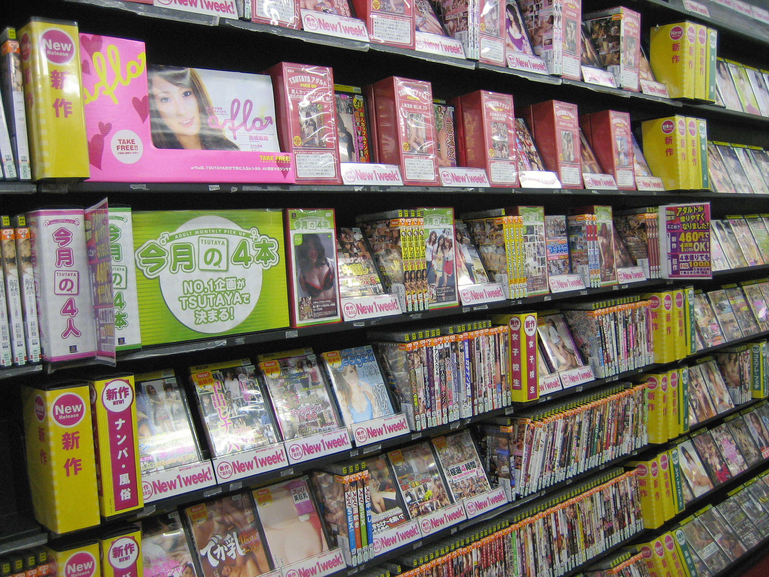 New movie for adults being exhibited by rental video shop.